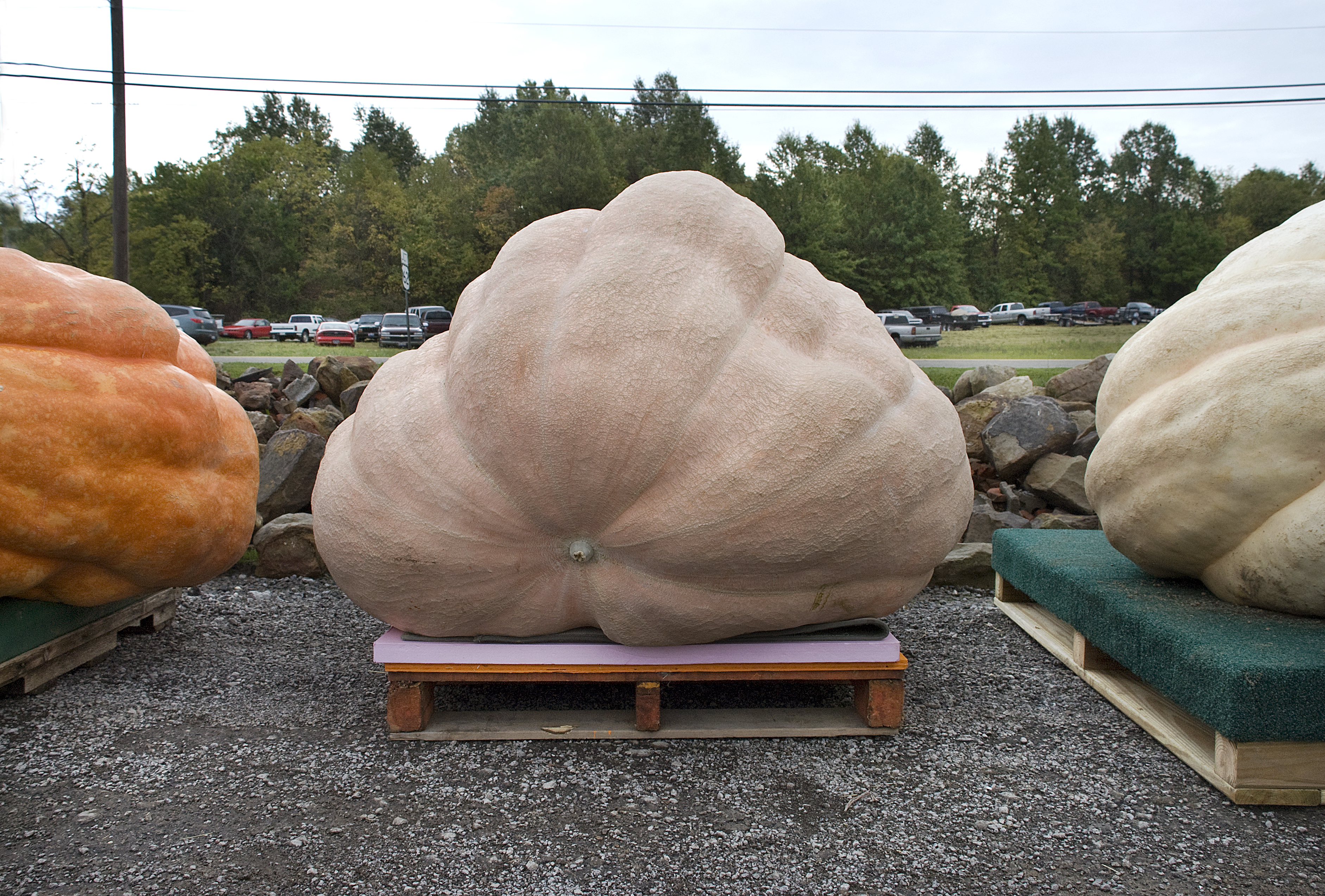 3 Weigh-Off contestant pumpkins in Ohio, in 2009.